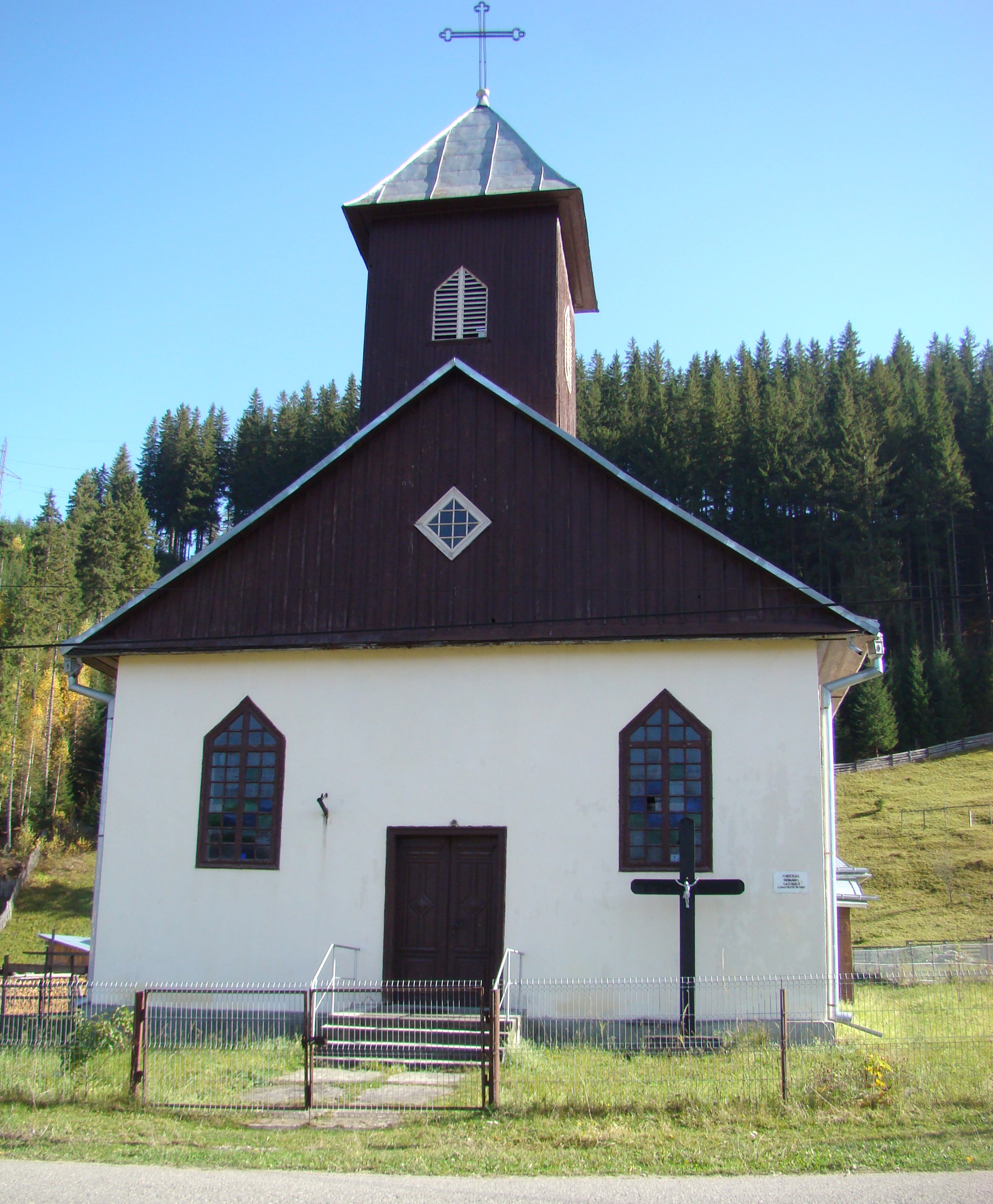 Pojorâta, Suceava county, Romania